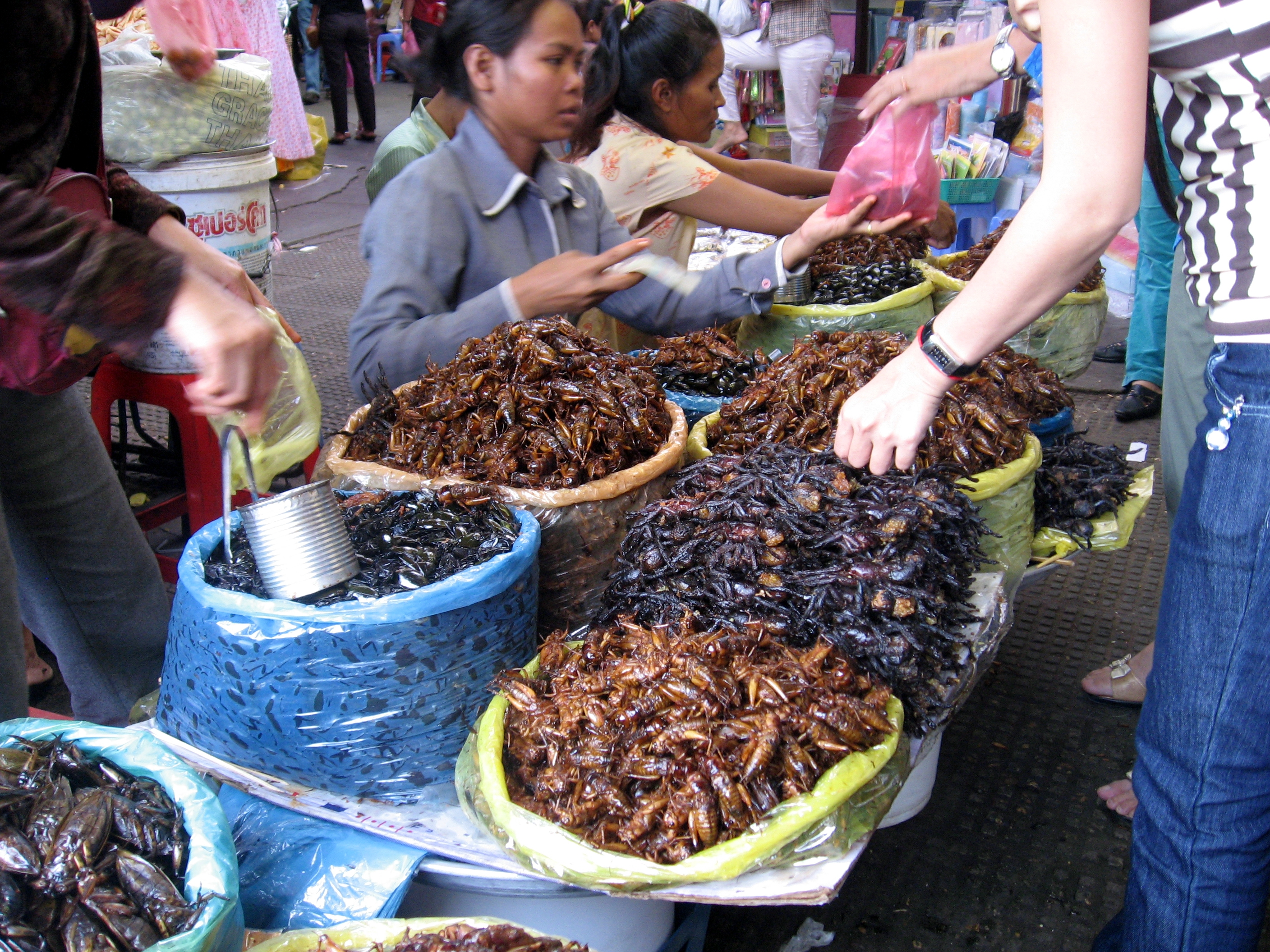 fried crickets and tarantulae on a market in Phnom Penh, Cambodia